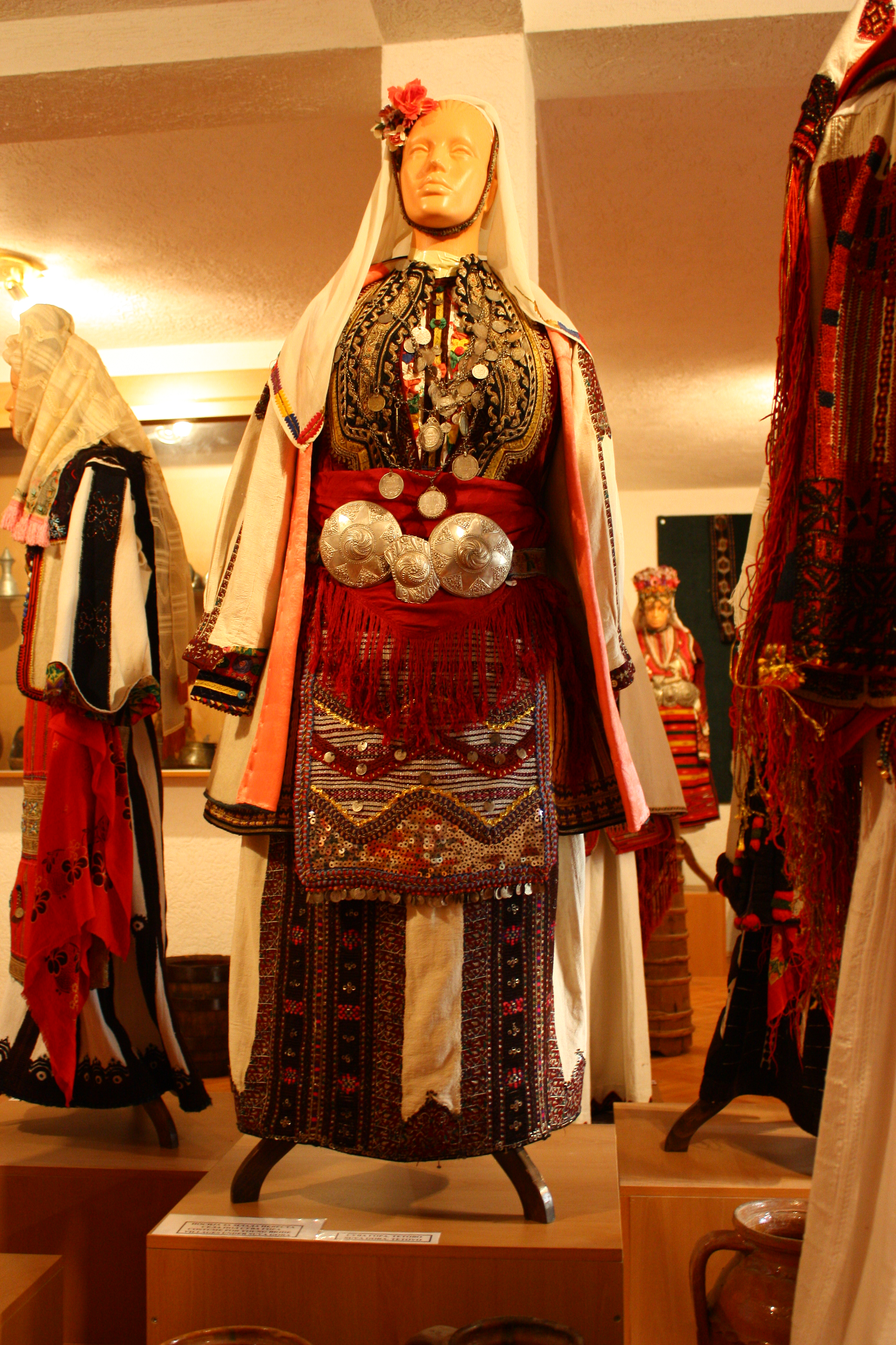 Ethnological Museum in Podmočani, Macedonia